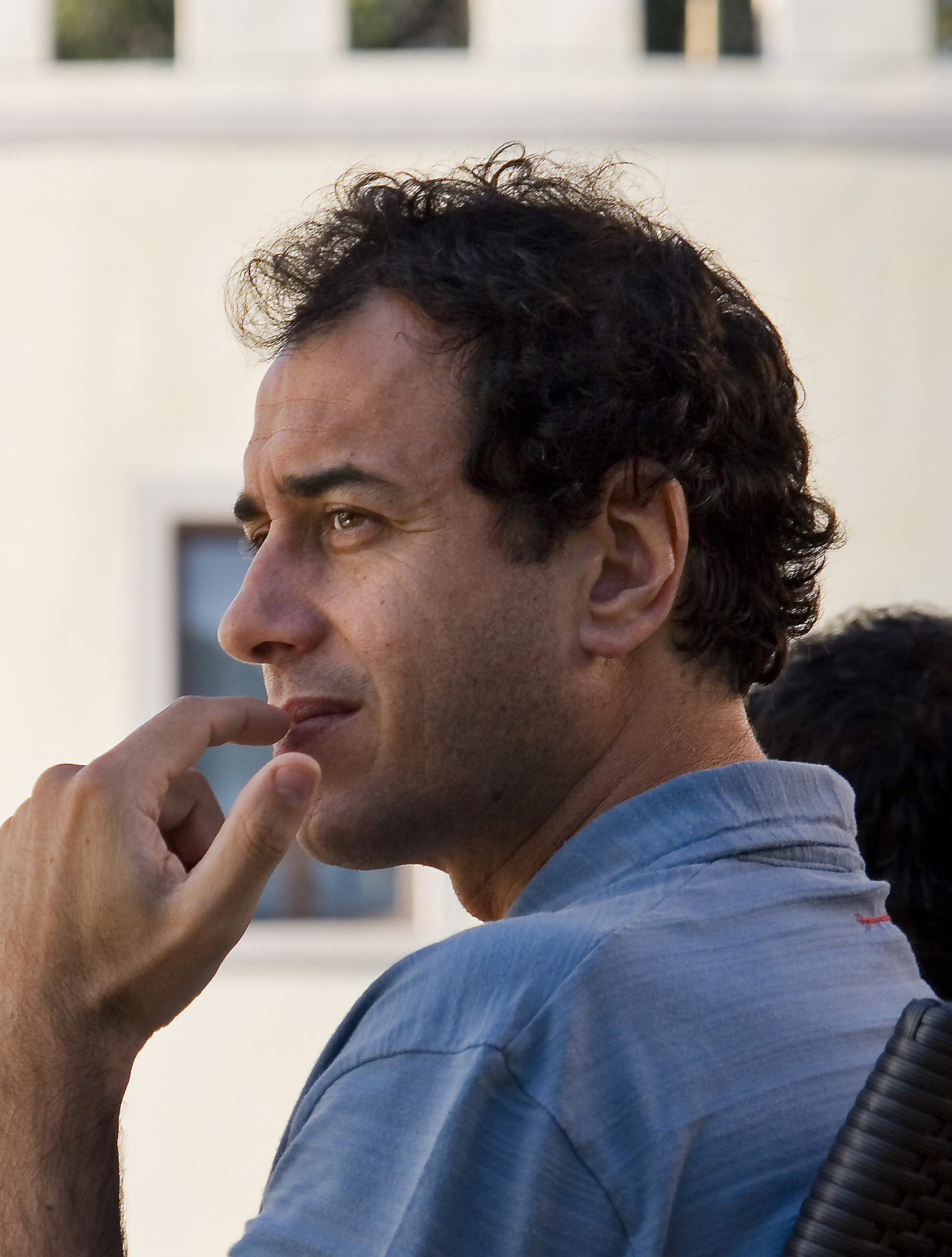 Film director Matteo Garrone in Castiglioncello (Tuscany, Italy) during the festival "Parlare di cinema a Castiglioncello" on June 21, 2008